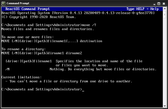 move command on ReactOS-0.4.13